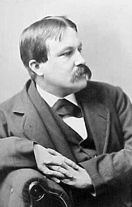 William Dean Howells (1837-1920), author & critic